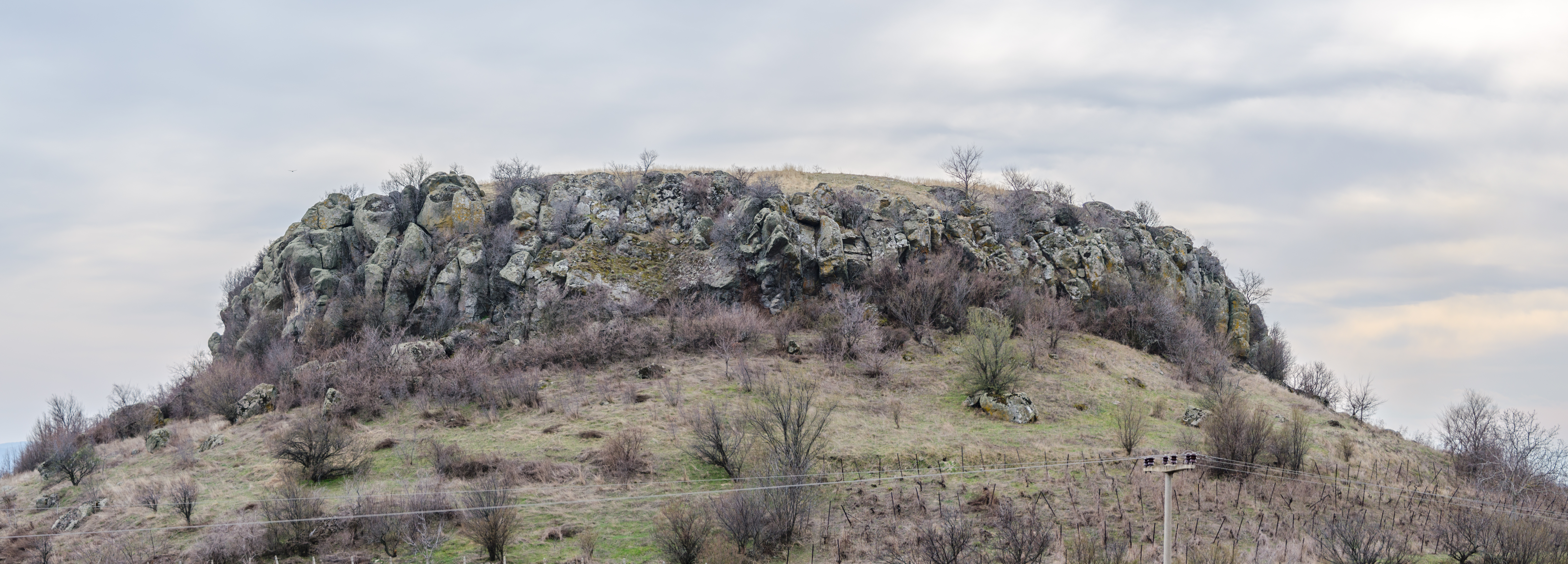 Kastoperska rock, Mlado Nagoričane